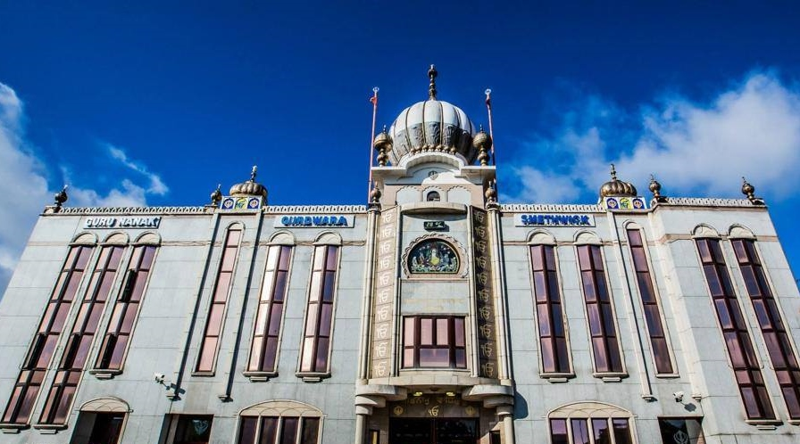 Full front view of Guru Nanak Gurdwara Smethwick